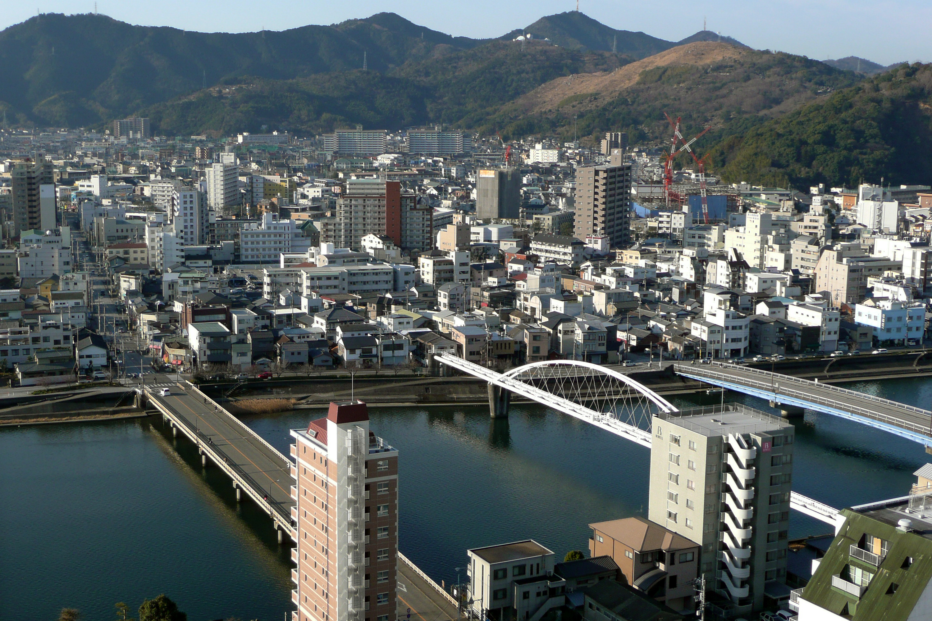 Kagami River in Kochi, Kochi prefecture, Japan